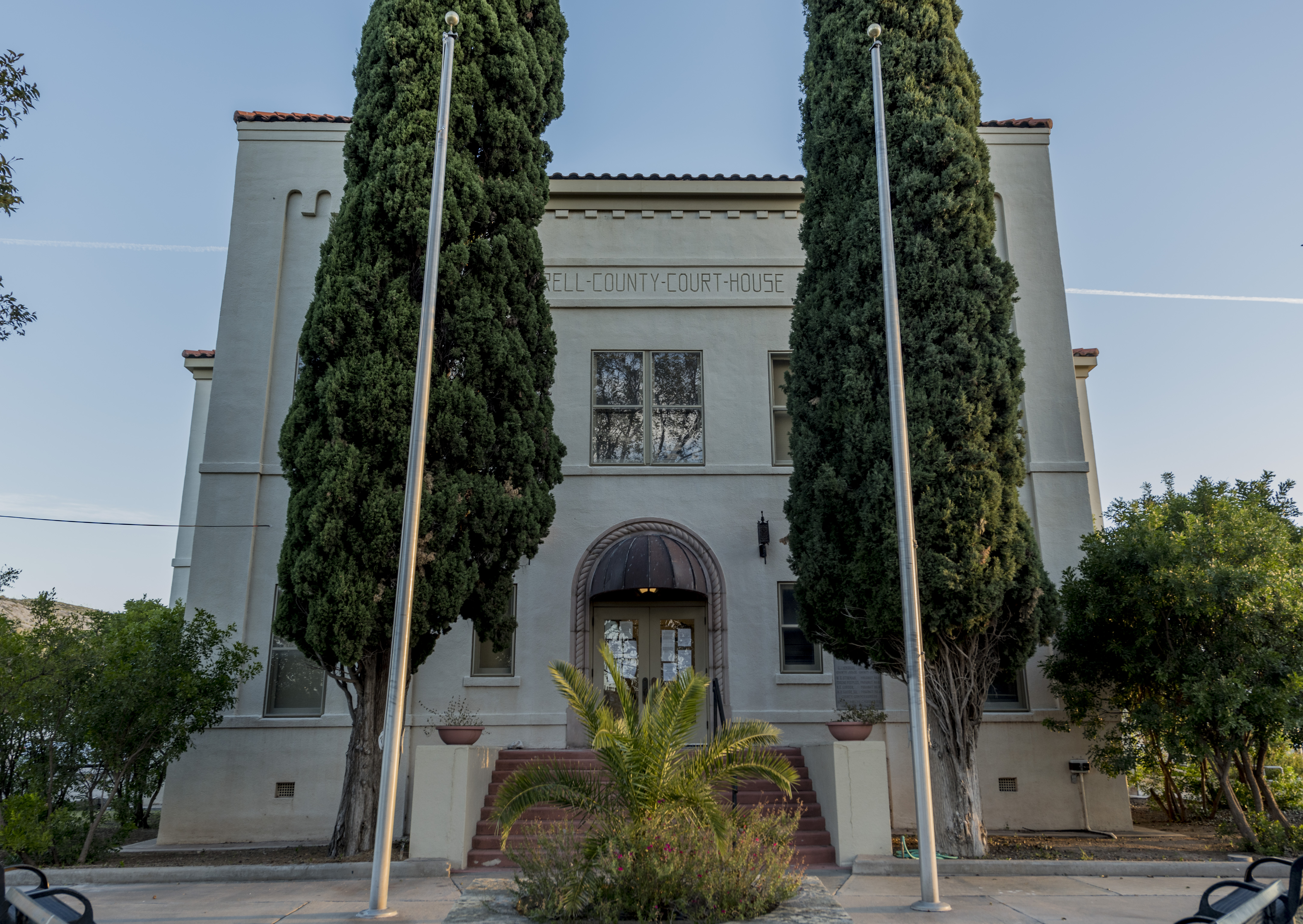 This is a photograph of the Terrell County, Texas courthouse taken in November 2019